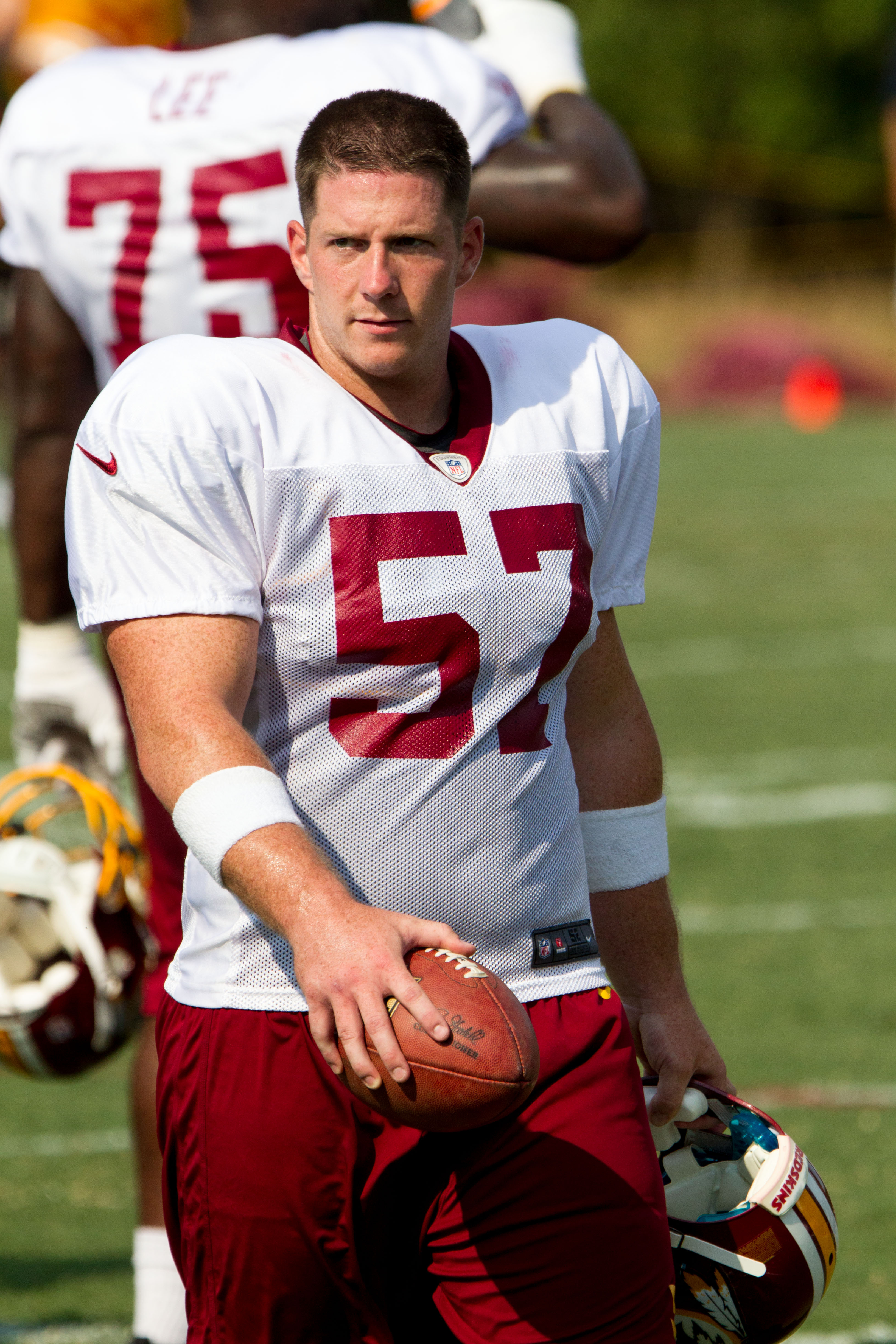 Nick Sundberg at Washington Redskins Training Camp August 13, 2012